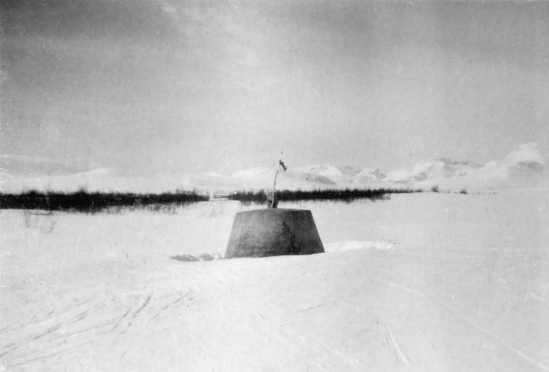 The small Finnish flag first raised on the three-country cairn by the patrol of Captain Valkonen at night on 26 April 1945 during the Lapland War.